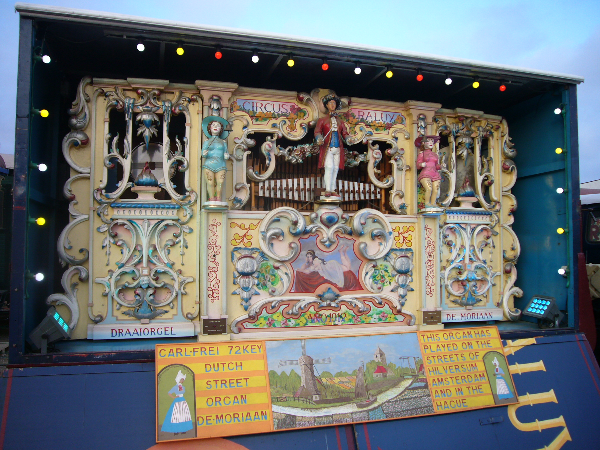 Circ Raluy - organ